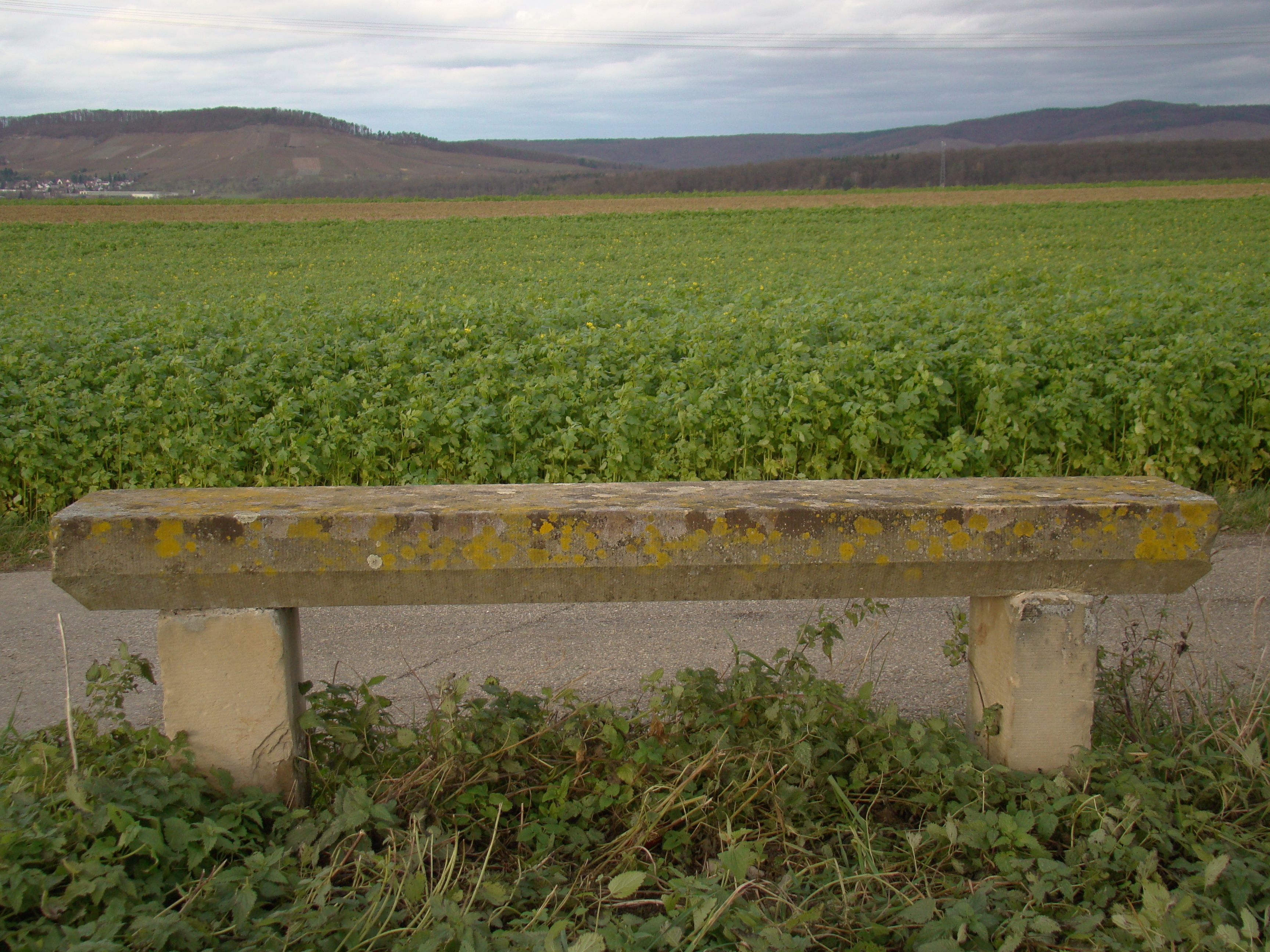 Old resting bench at the Nebenweg north of Vaihingen an der Enz, near the Stromberg Gymnasium